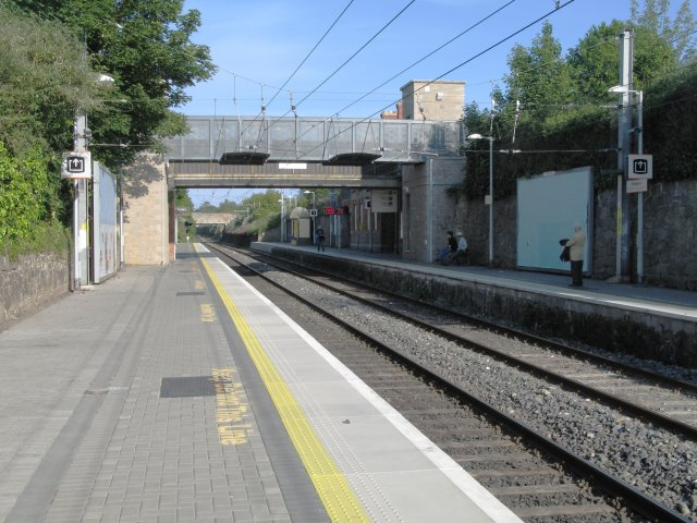 Glenageary DART station